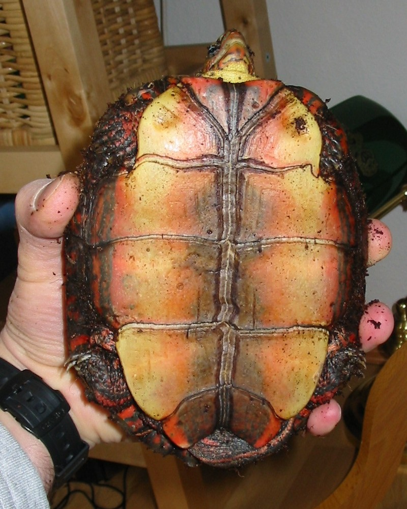 Incised wood turtle, Rhinoclemmys pulcherrima incisa, animal of terrarium: "Kassiopeia", age: 10 ... 11 years